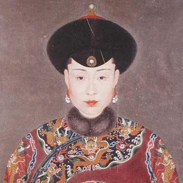 The Official Imperial Portrait of Qing Dynasty's Empresses